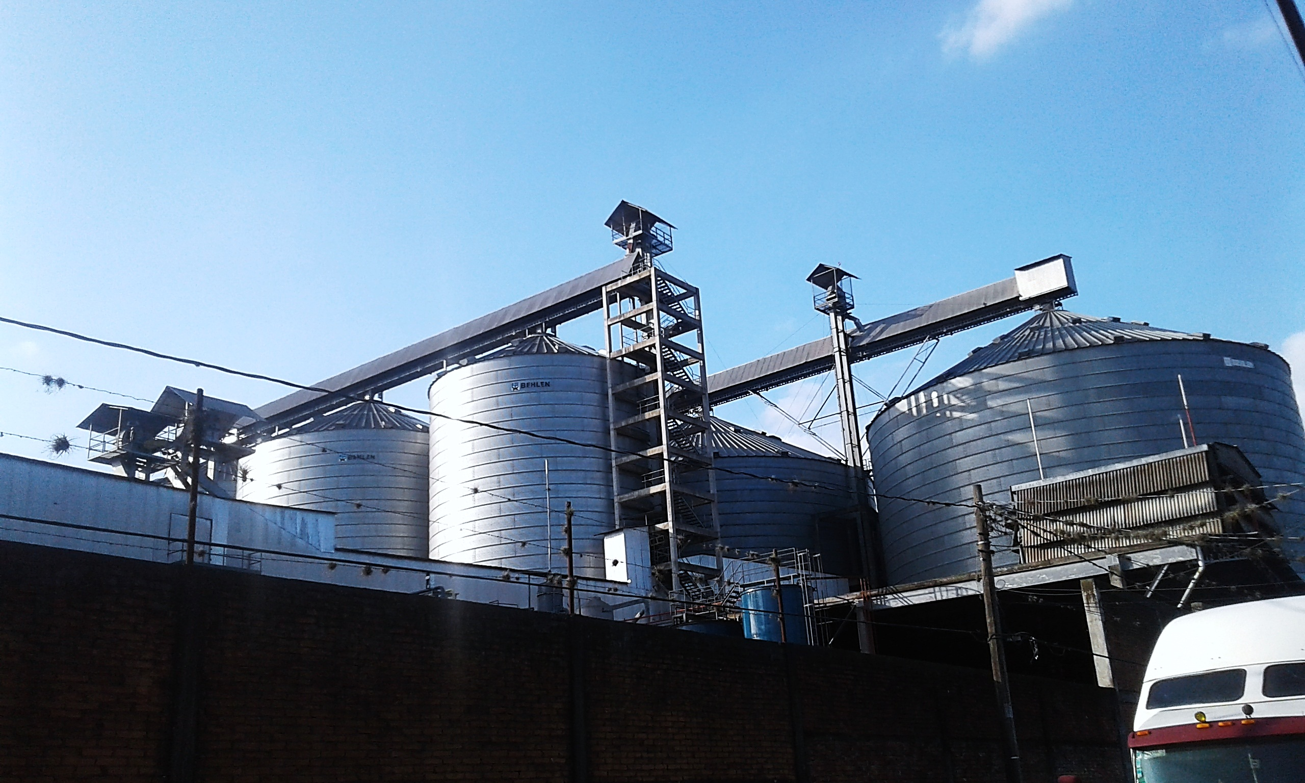 a part of the industrial zone of Cordoba Veracruz